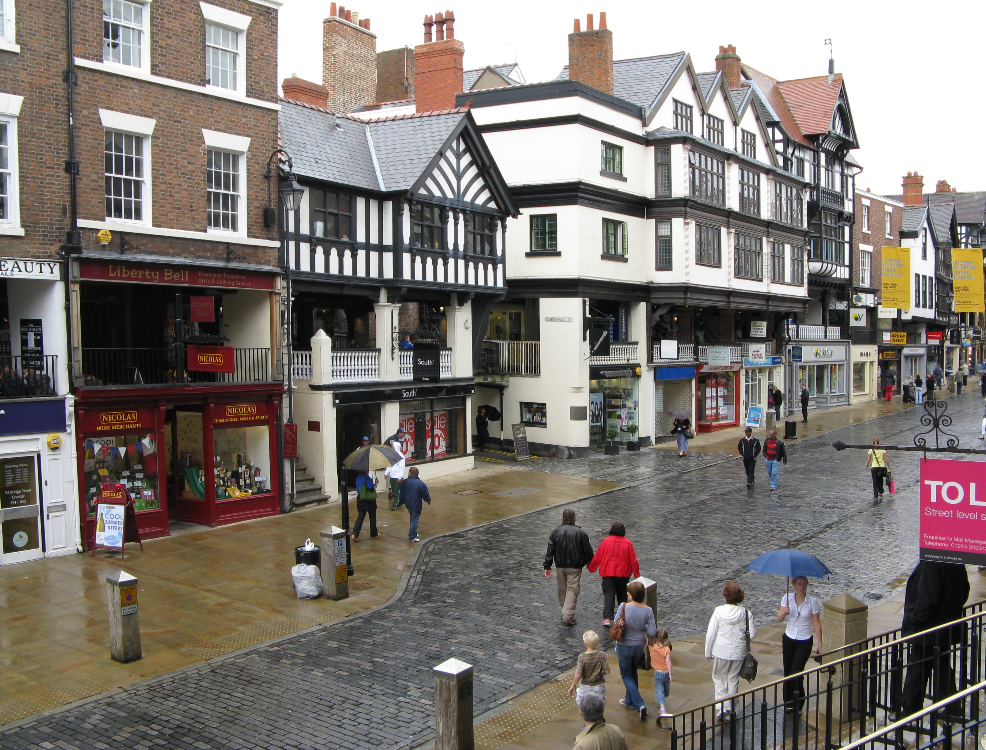 The centre of the city of Chester, England.